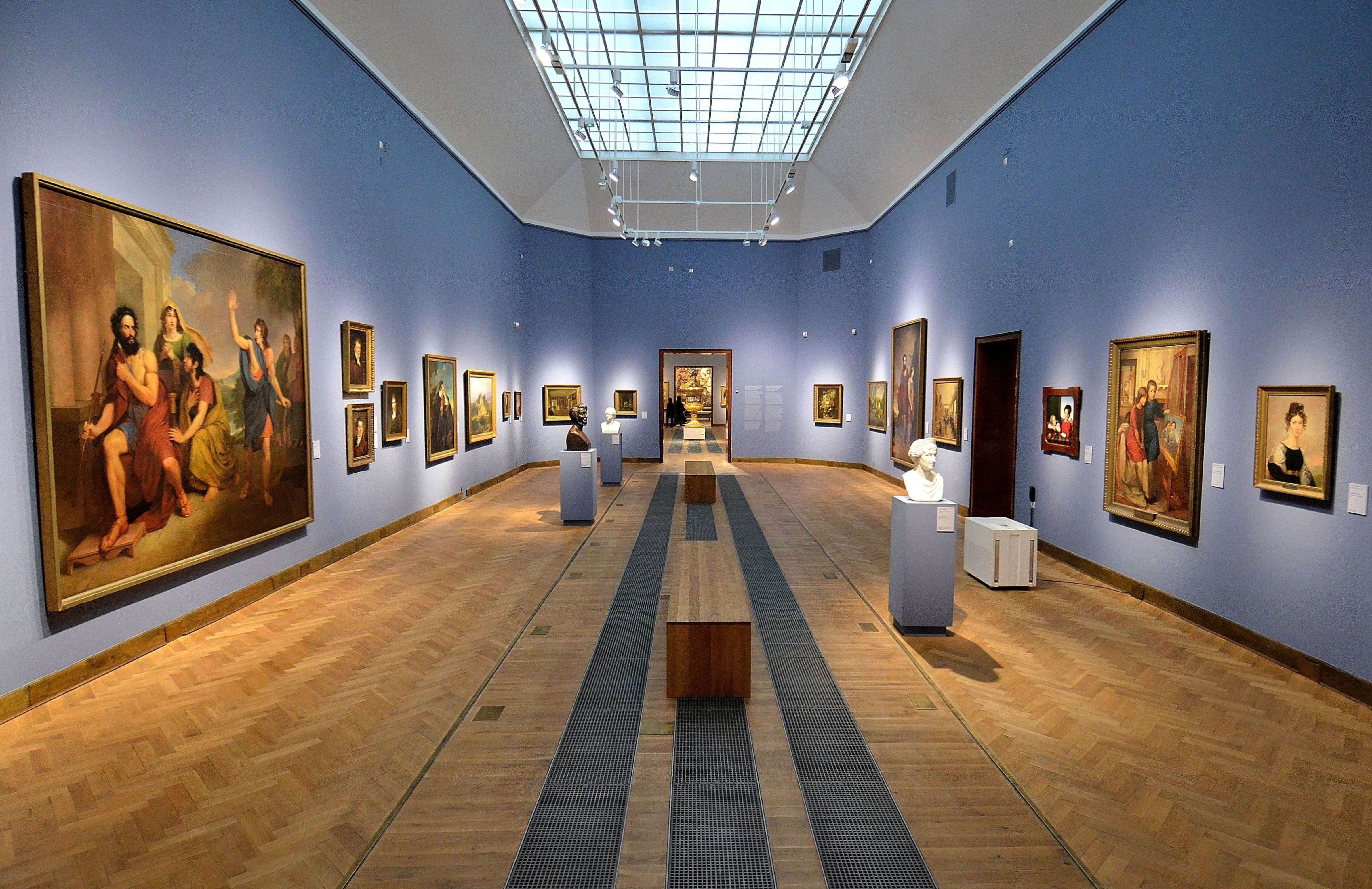 Gallery of the 19th century art. National Museum in Warsaw.